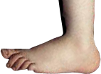 Cupid's foot, used by Monty Python's Flying Circus.